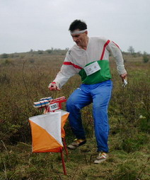 Photo from an orienteering race. An orienteer approaches a control point.